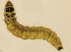 Stainton’s Natural History of the Tineina (1855–1873): Coleophora galbulipennella